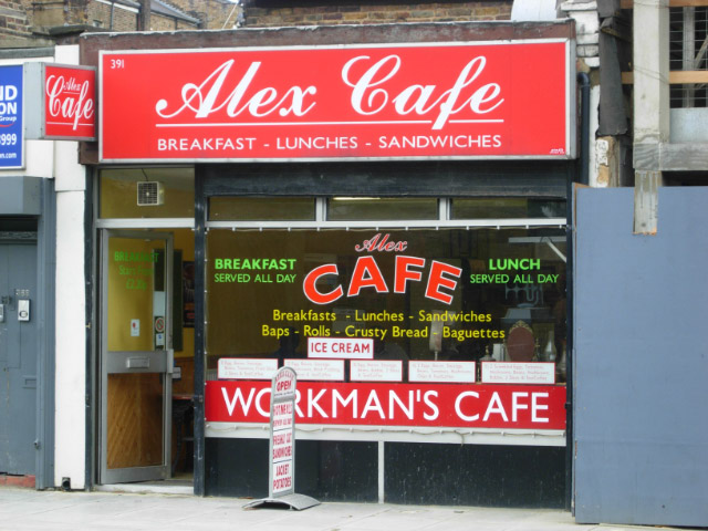 Alex Cafe, Islington Located on Liverpool Road, opposite the junction with Highbury Station Road. A traditional workman's cafe, affectionately known as a greasy spoon, offering hearty meals for the sort of prices that would barely buy a cup of coffee in trendier establishments. Even so, crusty bread, baguettes and jacket potatoes suggest that they have moved with the times.